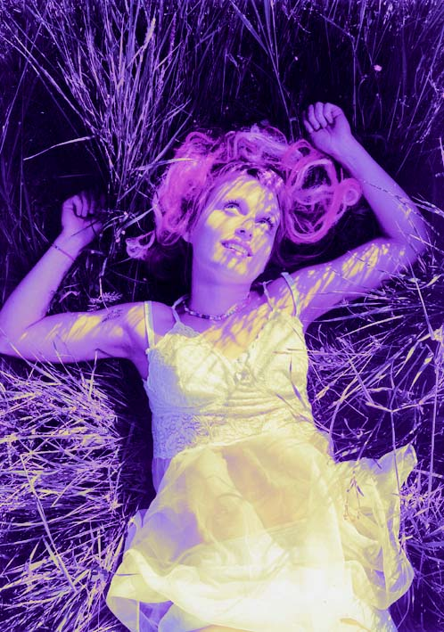 Solblomma